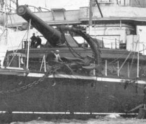 Photograph showing forward BL 16.25 inch gun barbette on British battleship HMS Benbow. See Image:HMSBenbow190sPortBow.jpg for full image.